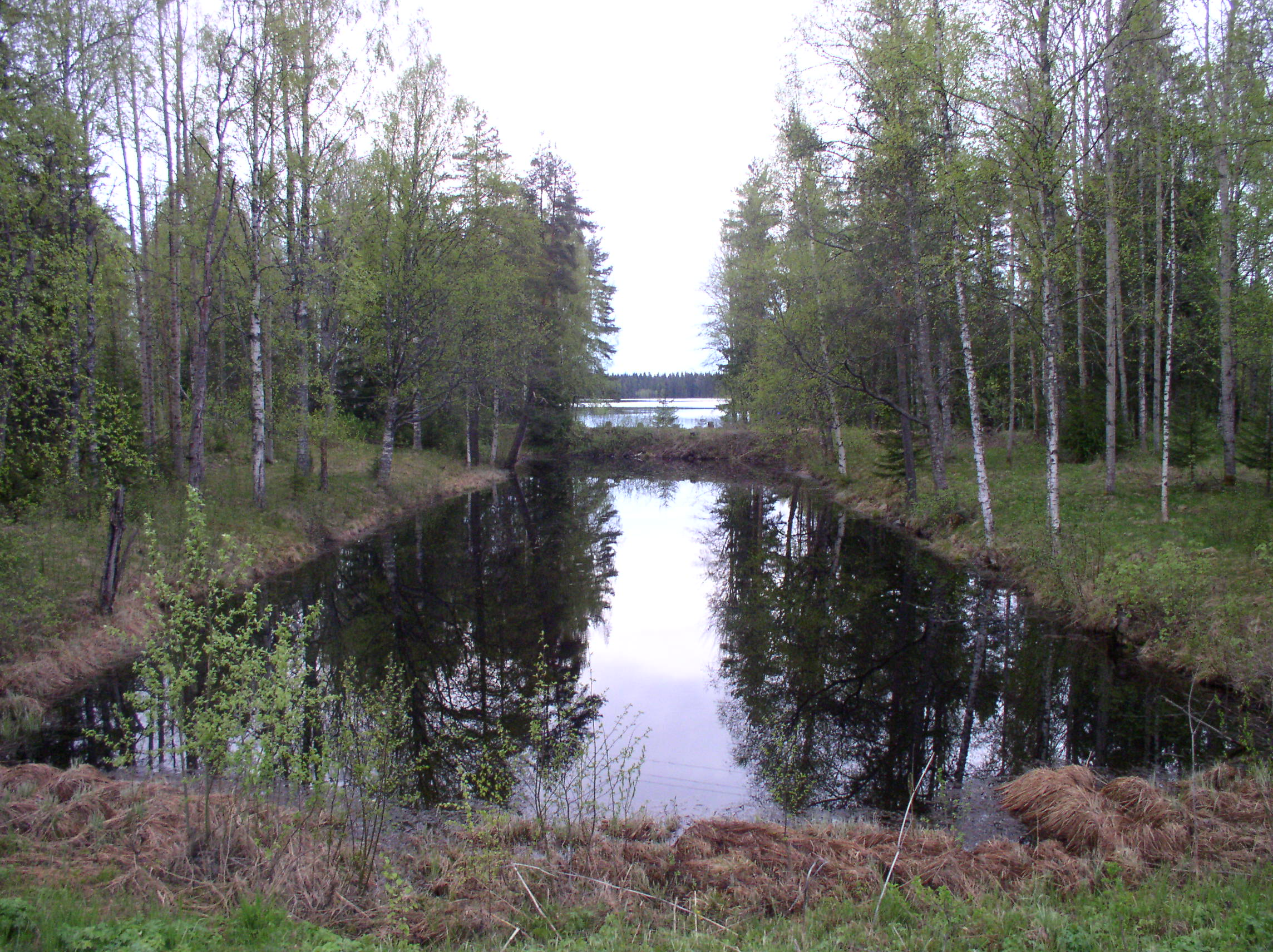 The historical Vianta Canal (1852-73) in Maaninka, Finland. A view to the north from the highway crossing the canal.